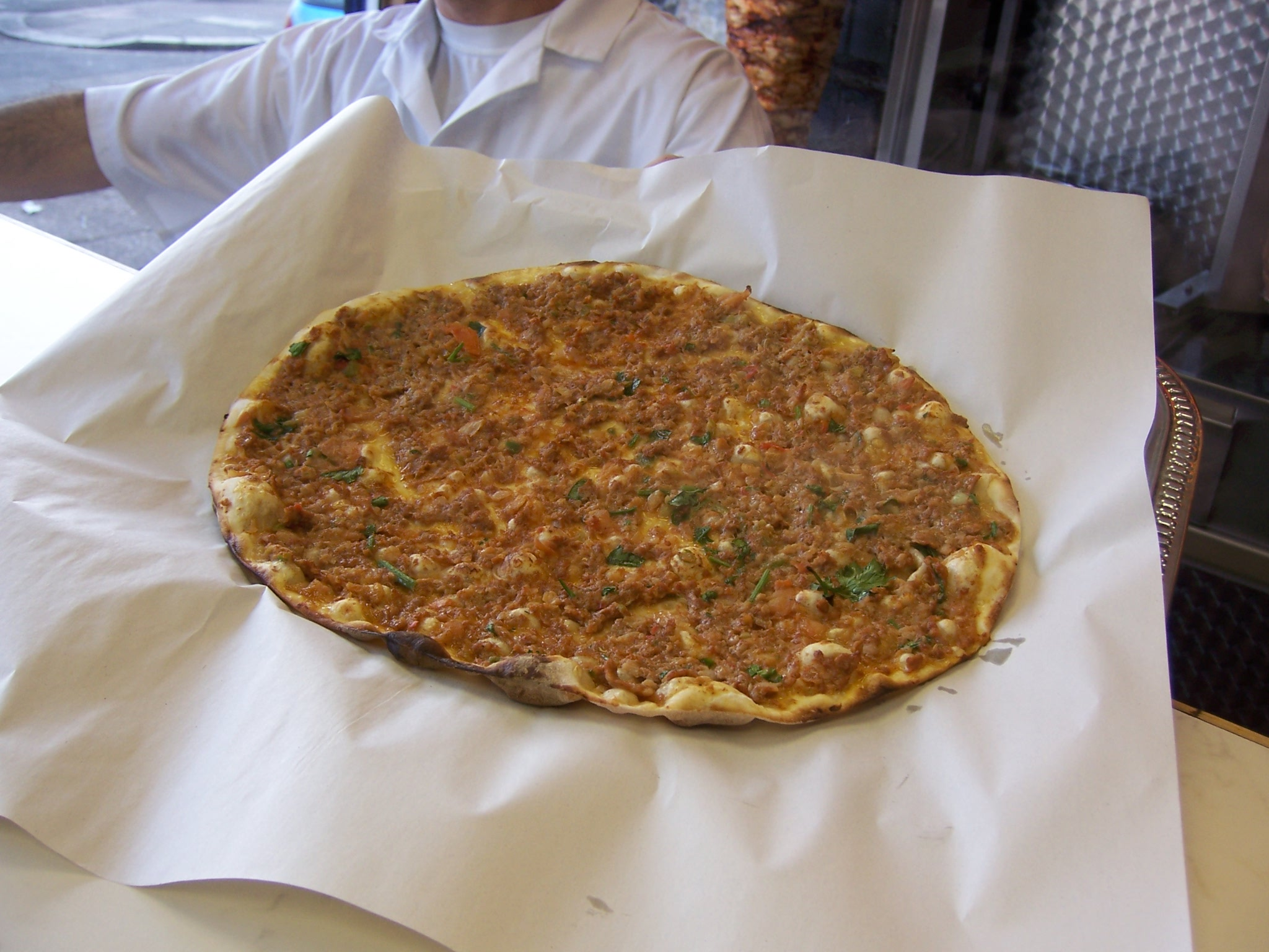 Image of a Turkish pizza, or lahmacun.